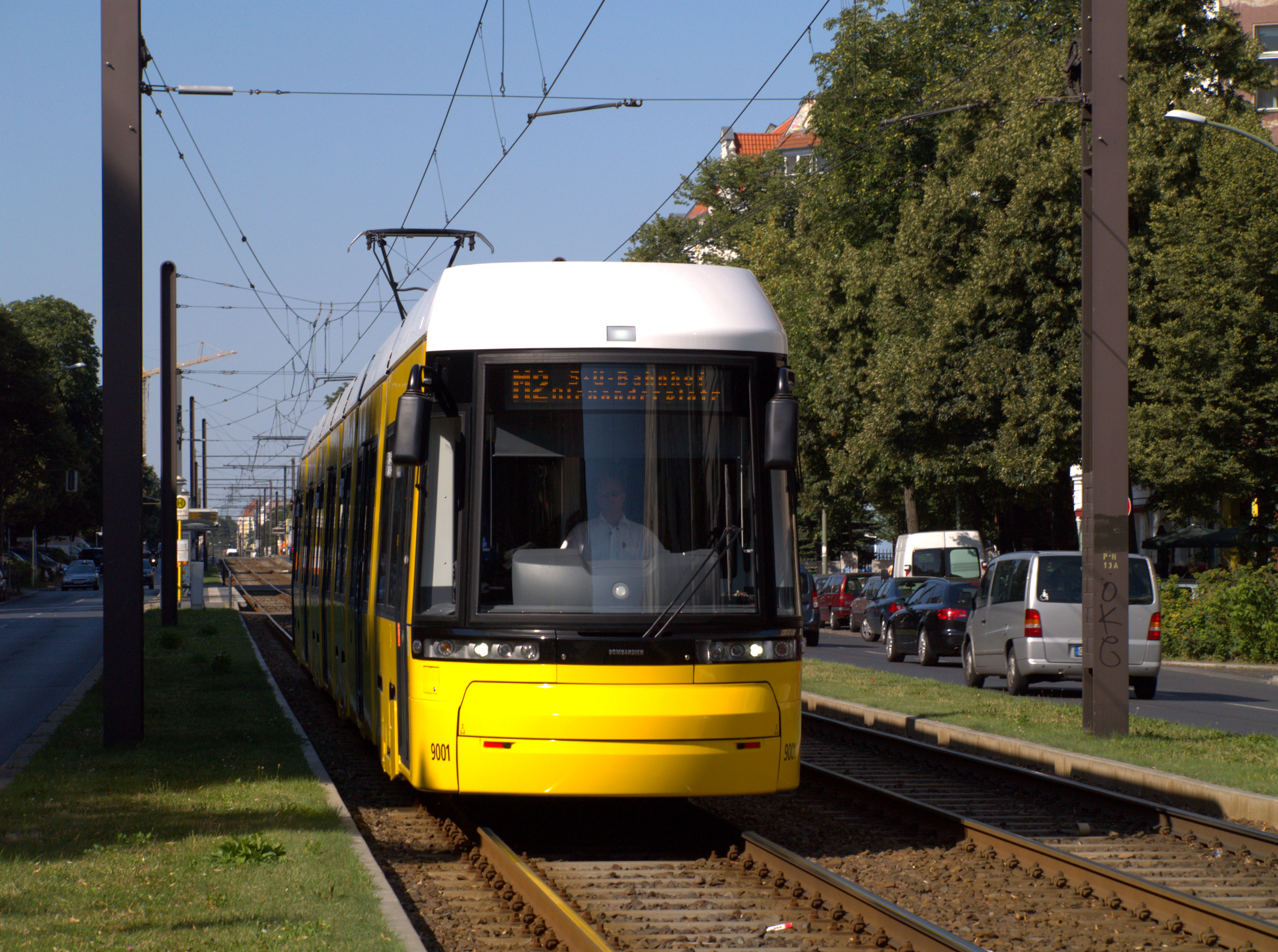 Car #9001 of Berlin Transport (BVG), a Bombardier Flexity Berlin, version ZRL (40.5 m long, with doors on both sides), built in 2008, on route M2 (Heinersdorf → Alexanderplatz), in Prenzlauer Allee.